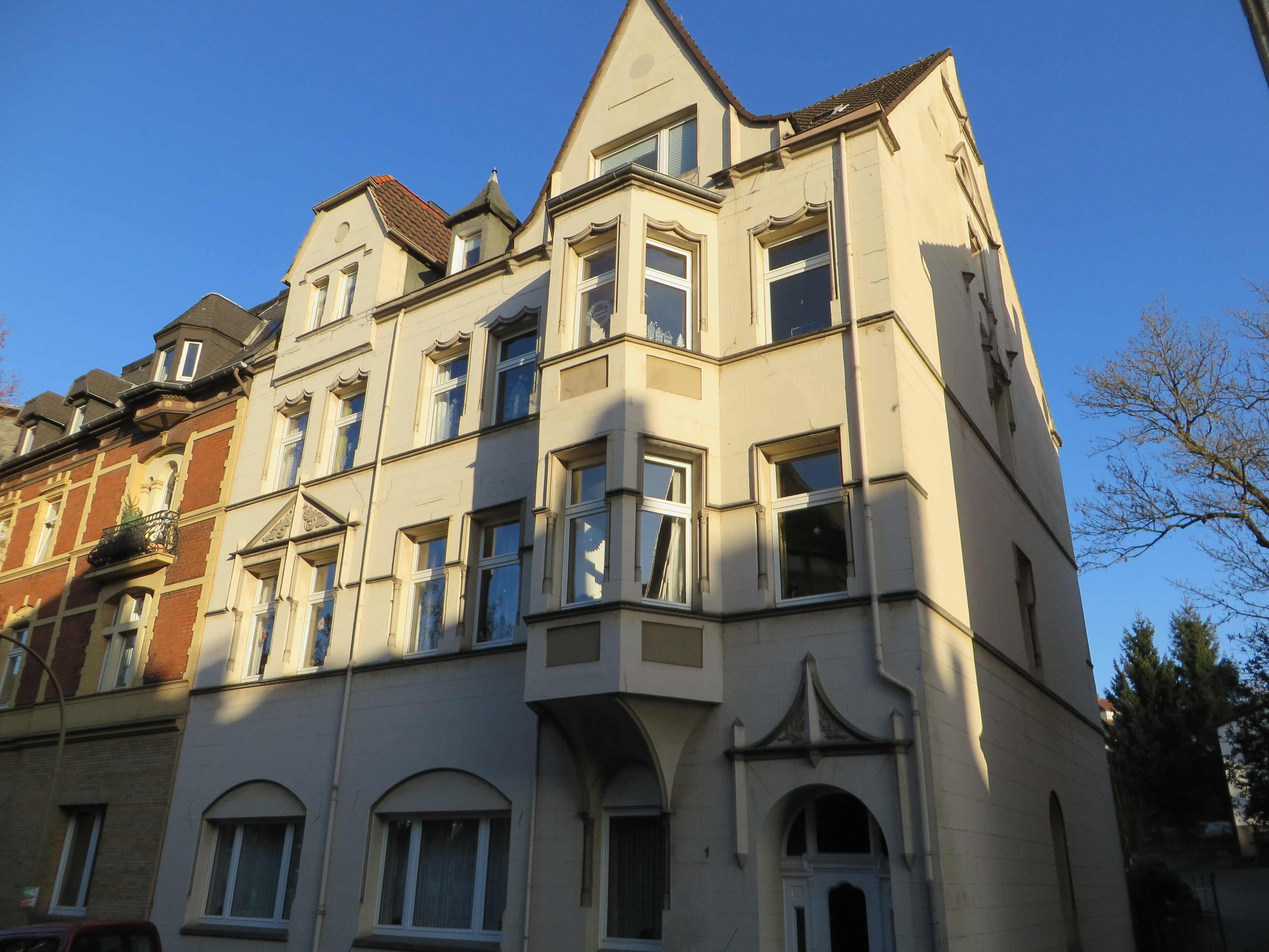 House Parkweg 1 in Witten, Germany